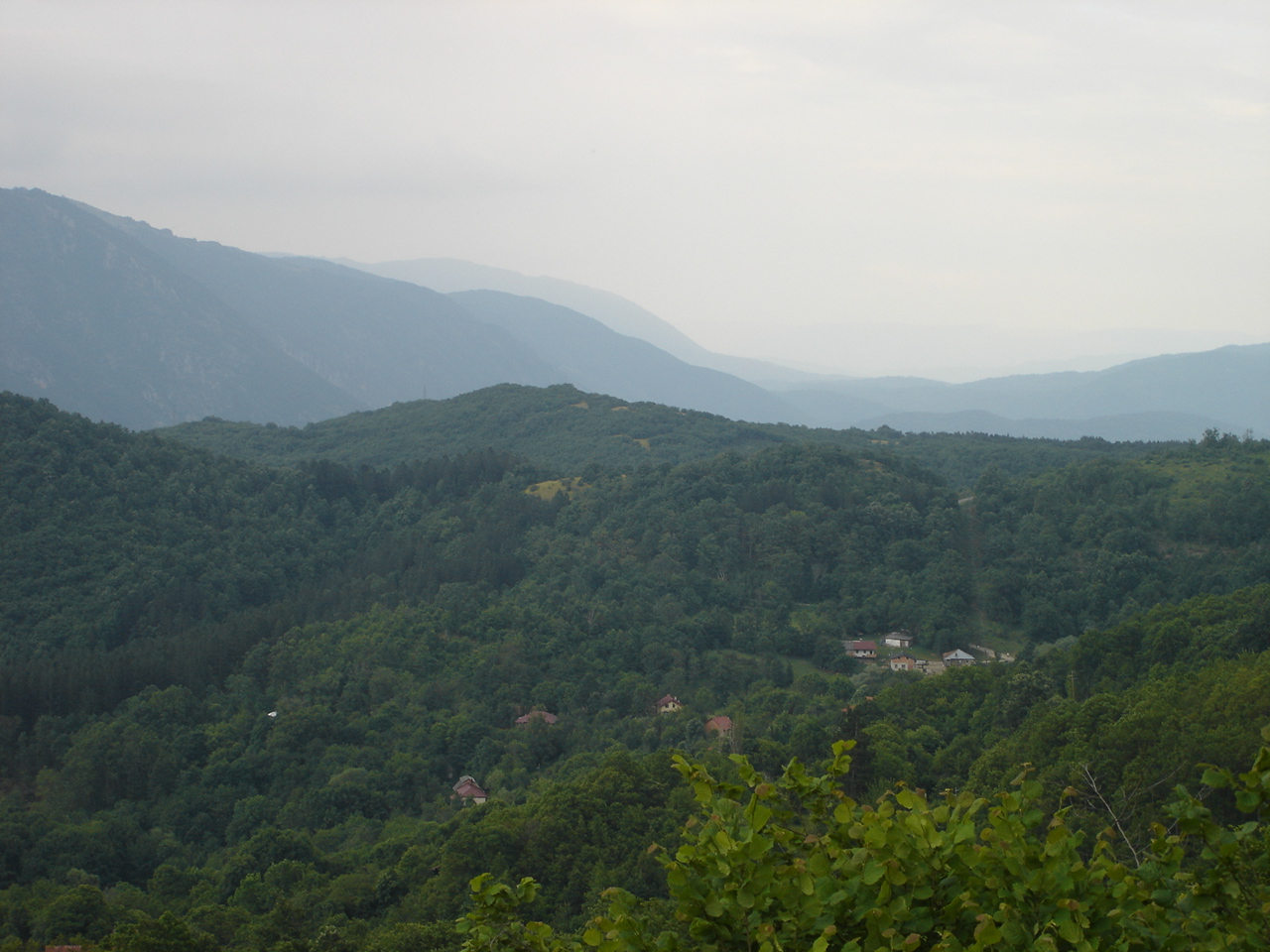 village of Drenok in Drimkol Region of Struga, Macedonia